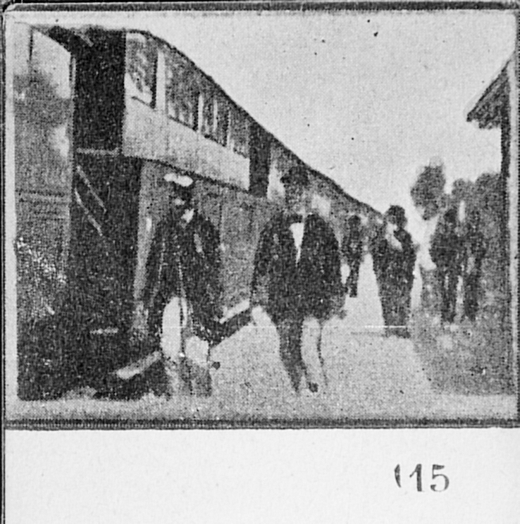 Page from the flipbook hypothesized to be a surviving copy of Georges Méliès's film Arrival of a Train at Vincennes Station. The complete film is reconstructed on the source webpage.